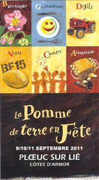 Logo of the host association of the biggest party of the Potato to France.